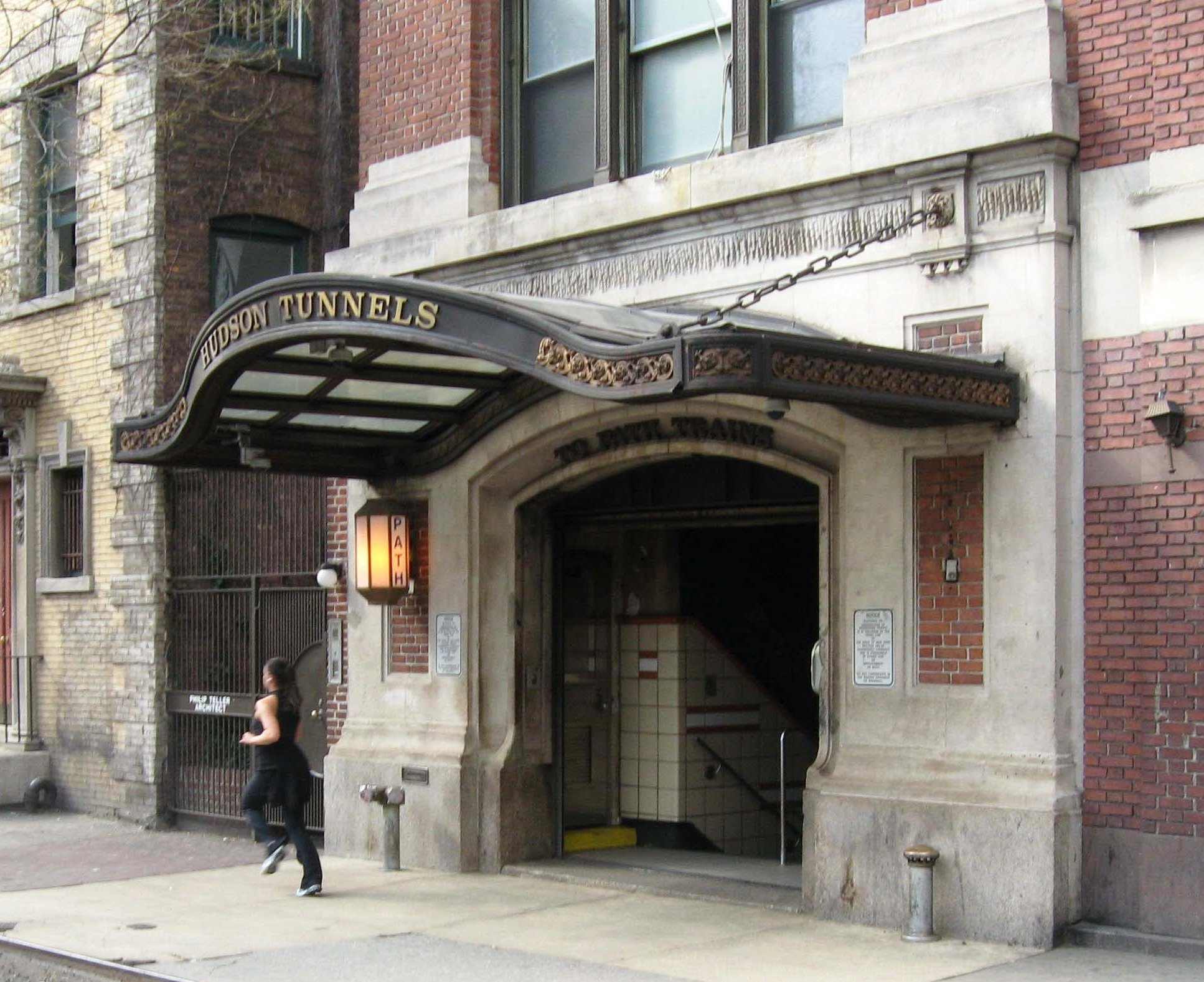 Christopher Street on an early spring afternoon. PD picture. Displaced by the more informative if not more pretty :commons:Image:Chrstopherhmstairjeh.jpg.